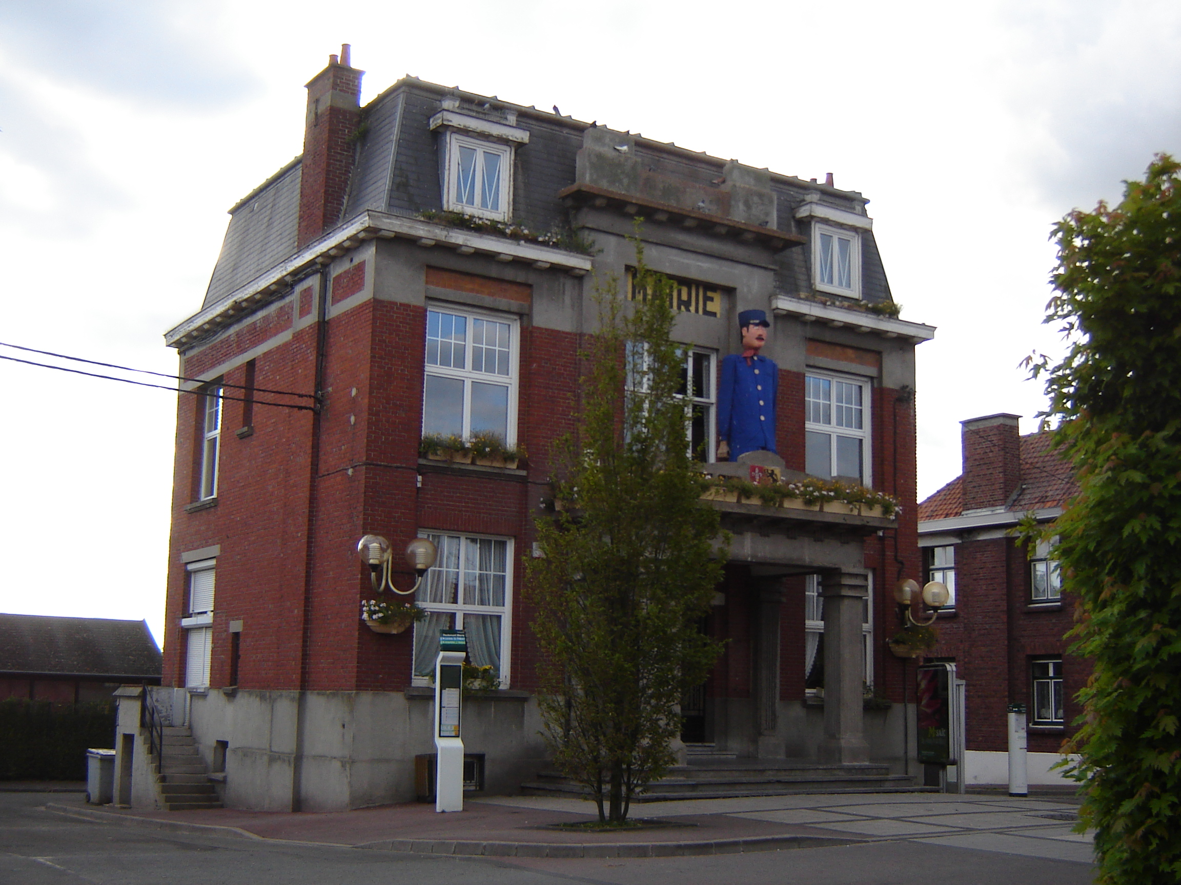 Town hall of Deûlémont. Deûlémont, Nord, Nord-Pas-de-Calais, France